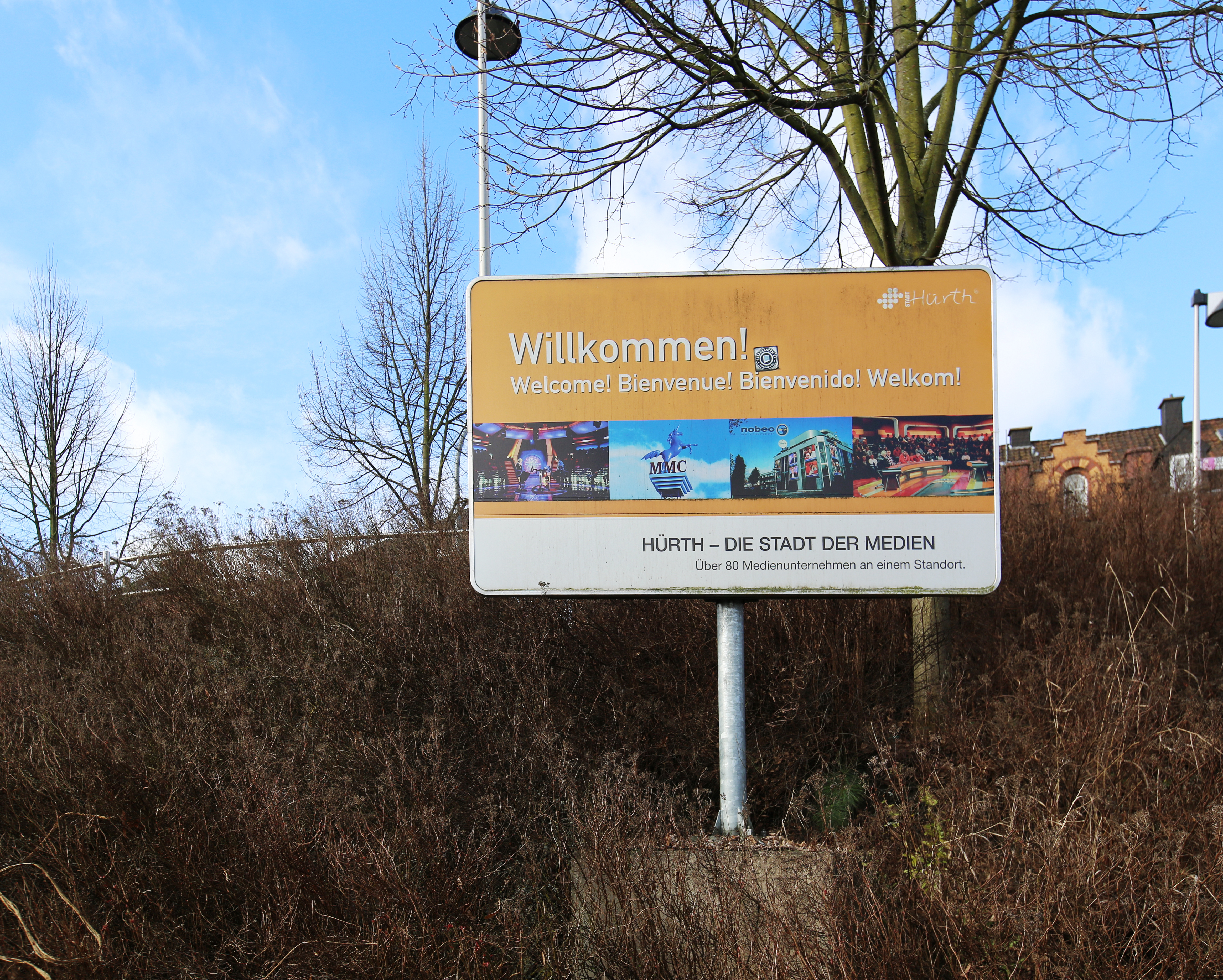 Arrival and welcome in Kalscheuren (Hürth), North Rhine-Westphalia, Germany